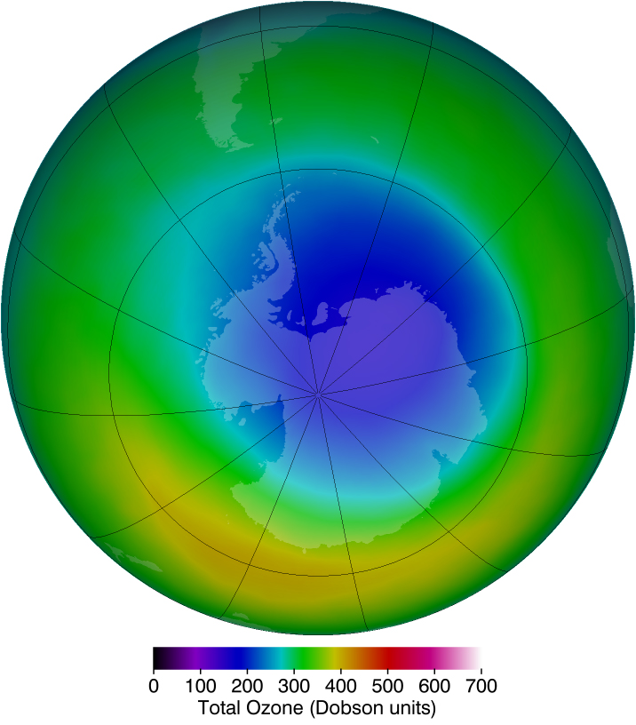 The area of the ozone hole, such as in October 2013 (above), is one way to view the ozone hole from year to year. However, the classic metrics have limitations.